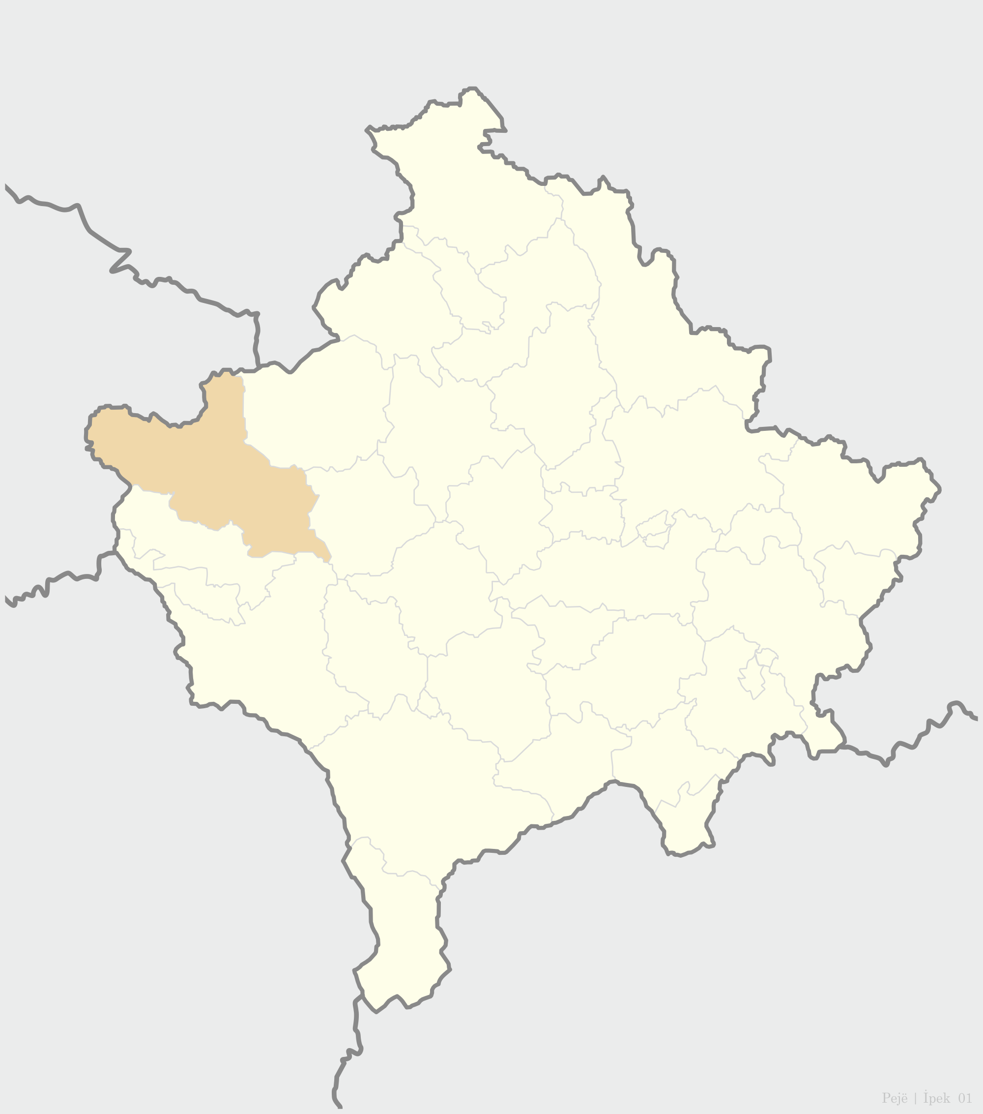 Municipality of Pec map